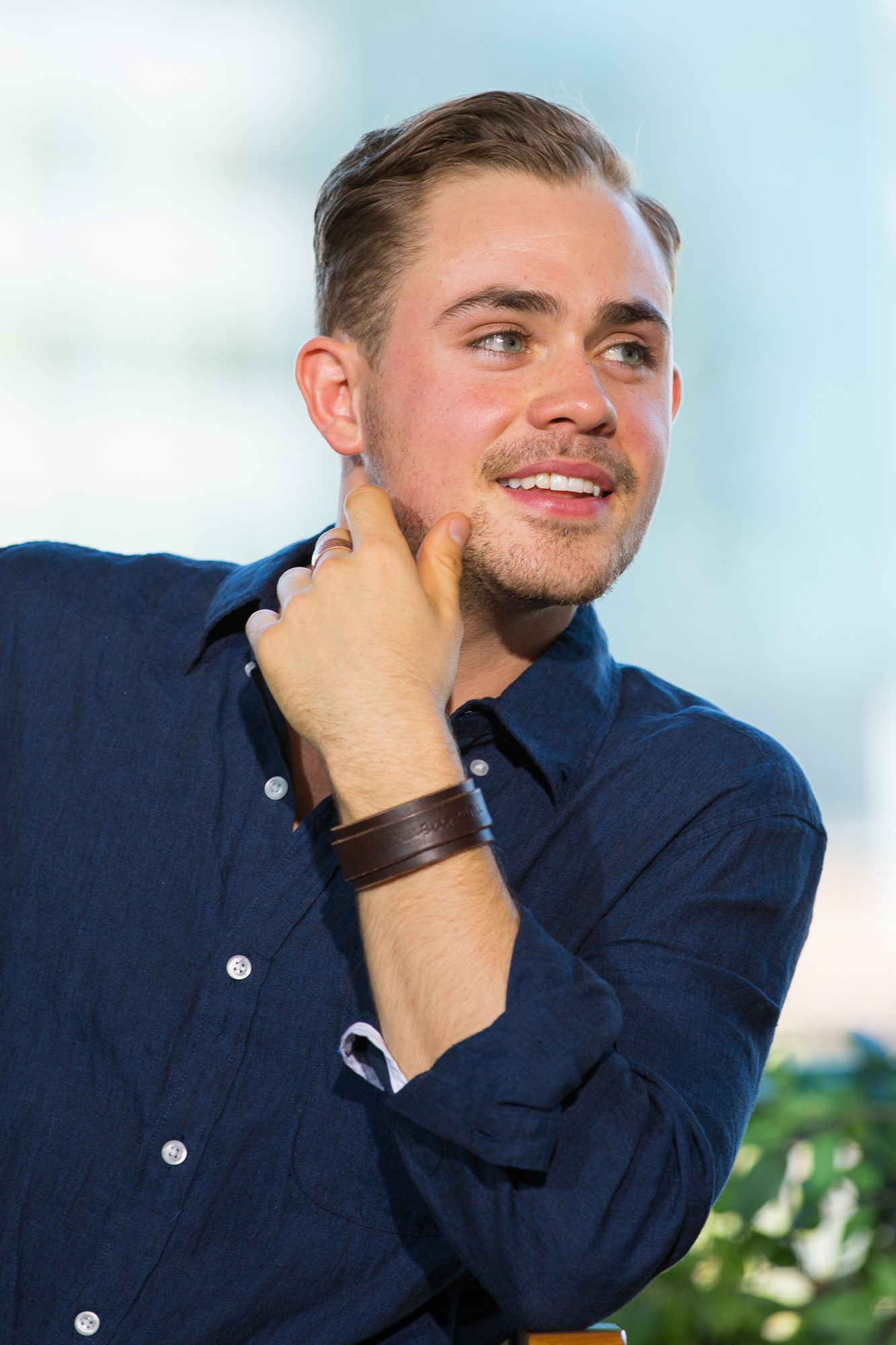 Dacre Montgomery at the Power Rangers movie discussion at Camp Conival offsite at Petco Park during San Diego Comic-Con 2016